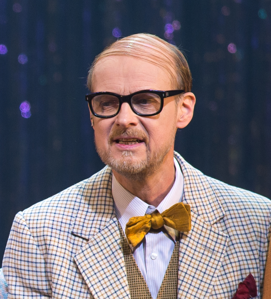 Jan Mybrand i musikalen Häxorna i Eastwick på Cirkus i Stockholm 2019. Med Peter Jöback, Linda Olsson, Kayo Shekoni, Vanna Rosenberg, Sussie Eriksson, Jan Mybrand med flera.